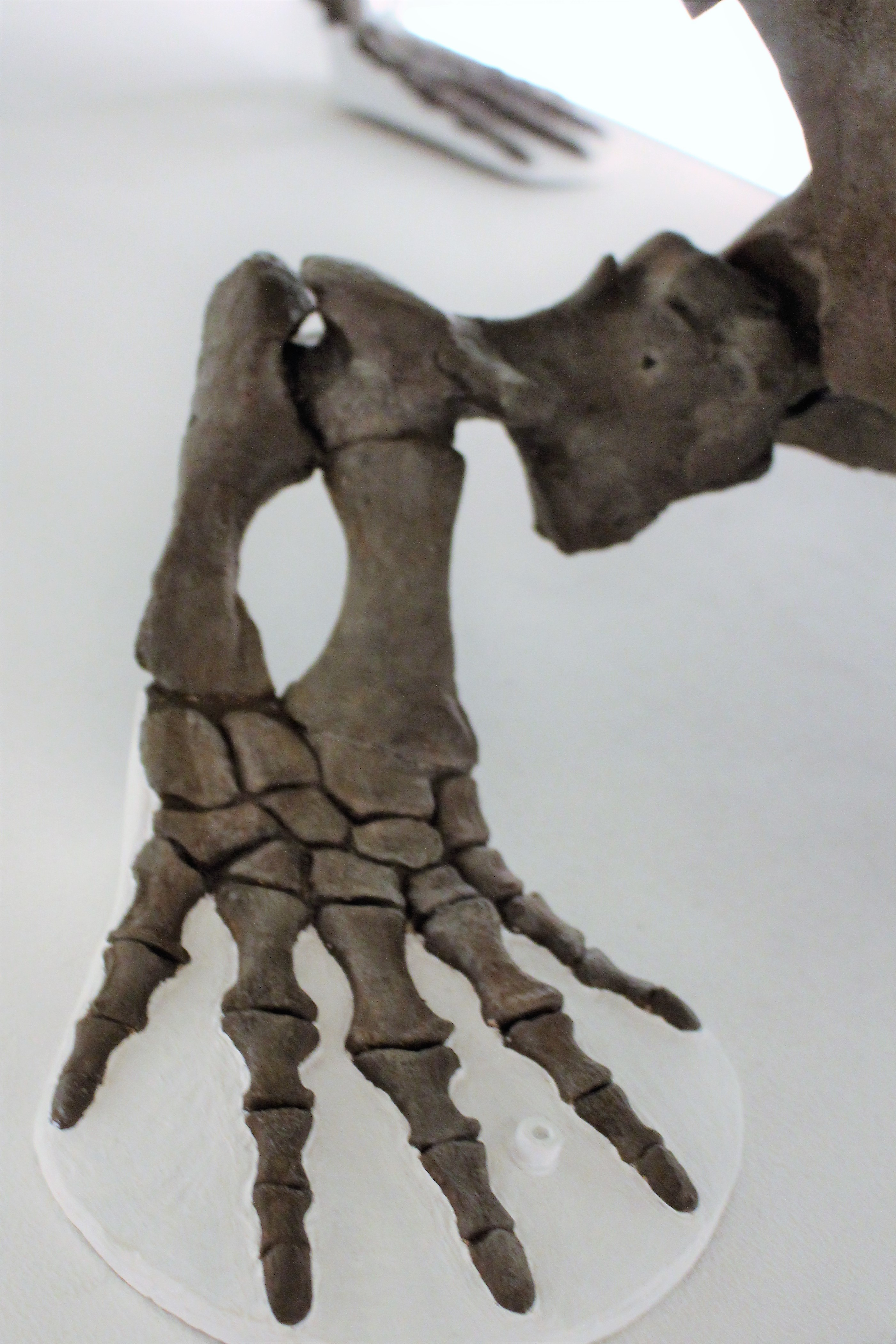 The front right foot of an Eryops megacephalus skeleton, at the Cambridge University Museum of Zoology, England.